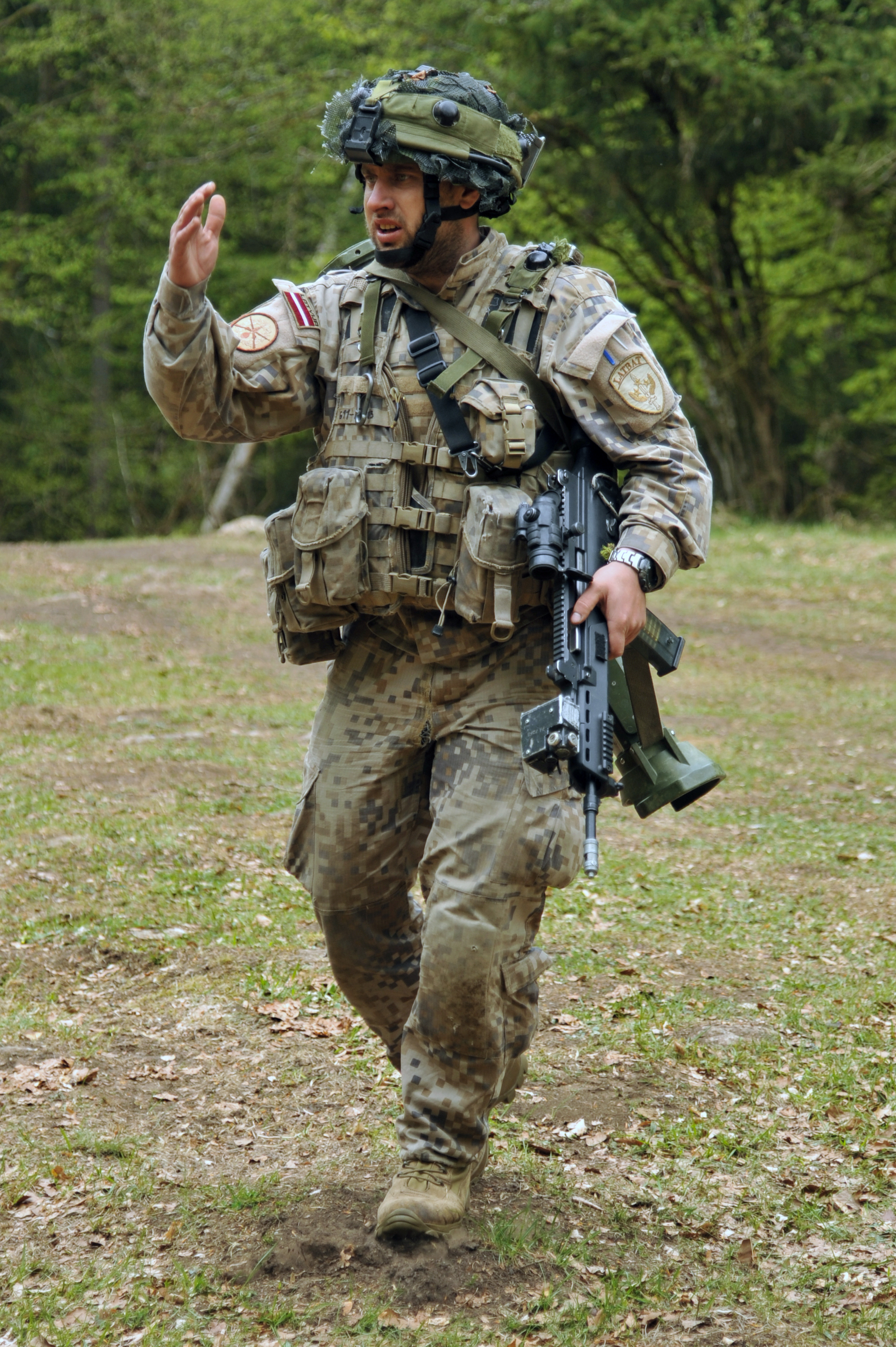 A Latvian Army soldier uses hand signals to communicate with his comrades during exercise Saber Junction 15 at the U.S. Army’s Joint Multinational Readiness Center in Hohenfels, Germany, April 23, 2015. Saber Junction 15 prepares NATO and partner nation forces for offensive, defensive, and stability operations and promotes interoperability among participants. Saber Junction 15 has more than 4,700 participants from 17 countries, to include: Albania, Armenia, Belgium, Bosnia, Bulgaria, Great Britain, Hungary, Latvia, Lithuania, Luxembourg, Macedonia, Moldova, Poland, Romania, Sweden, Turkey and the U.S. More at (U.S. Army photo by Visual Information Specialist Markus Rauchenberger/Released)